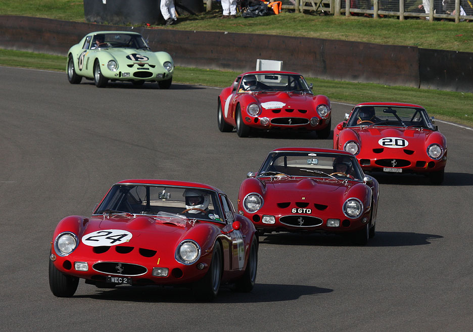 Four 250 GTO and one 330 GTO at Goodwood Revival 2012. Cars are (starting in front): s/n 4293GT, s/n 3527GT, s/n 3729GT, s/n 4561SA (330 GTO) and (the one in the back) s/n 3505GT.